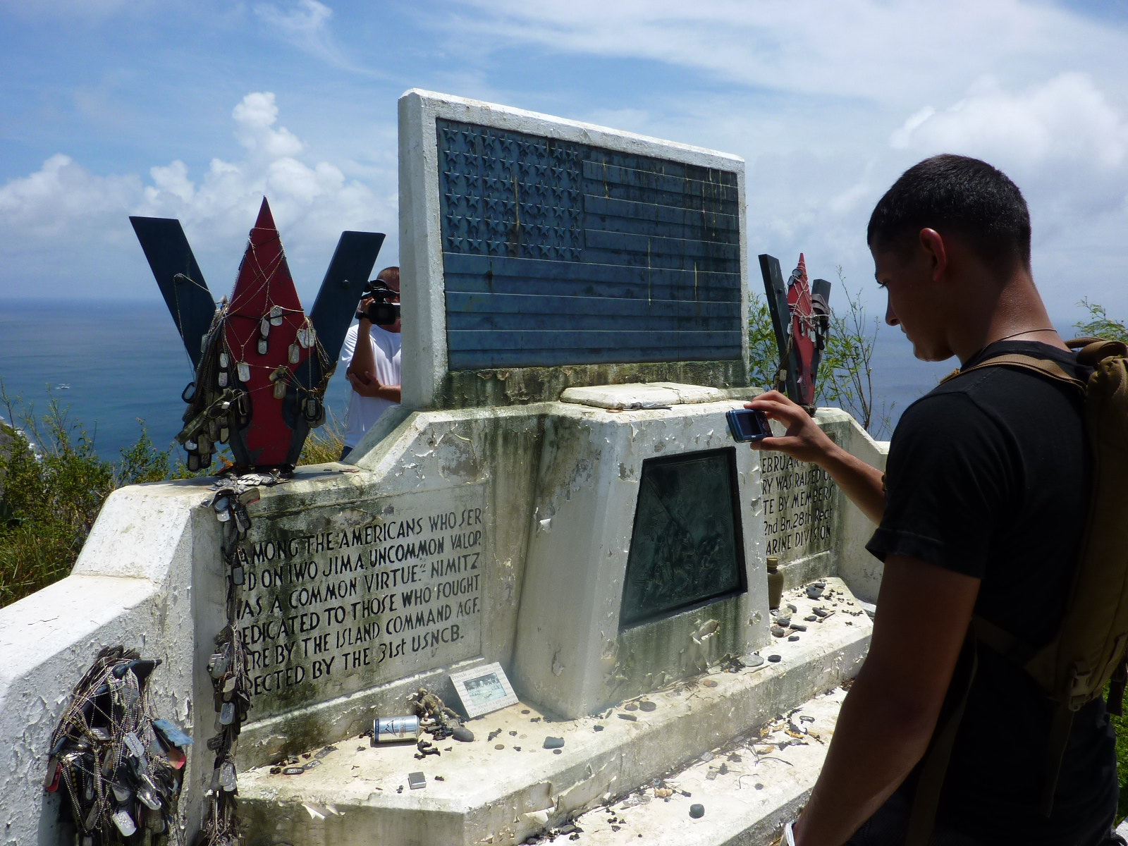 An Iwakuni-based Marine photographs a memorial constructed on Iwo To, formerly known as Iwo Jima, Aug 13 during their island hop trip. Iwakuni Marines embarked on an 11-day expedition Aug. 3 to various locations across the Pacific to commemorate the Marine Corps 67th anniversary of World War II’s Guadalcanal Campaign.